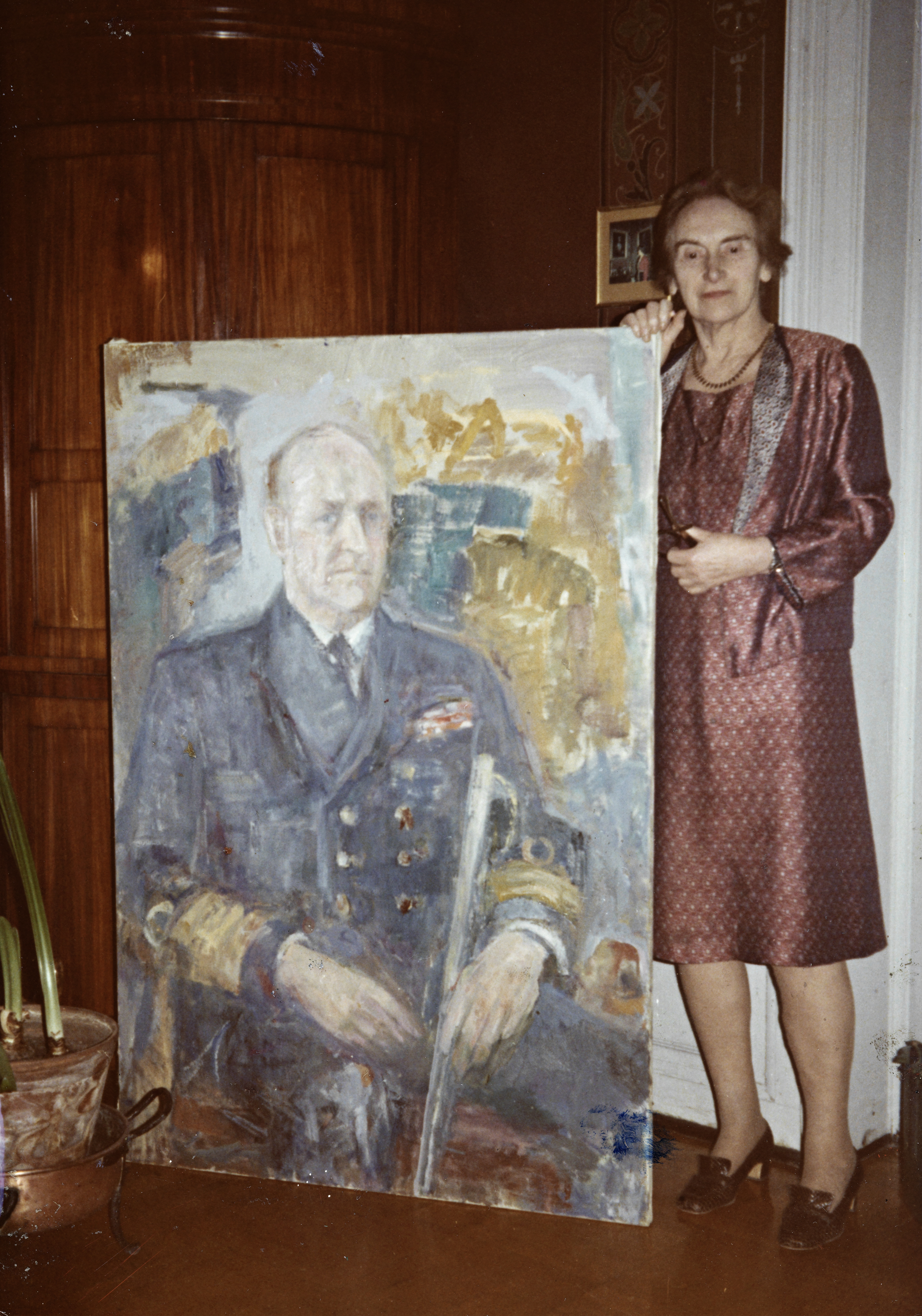 Beskrivelse / Description: Her med portrettet av kong Olav V / With the painting of King Olav V. Dato / Date: ukjent / unknown Fotograf / Photographer: ukjent / unknown Digital kopi av original / Digital copy of original: papirpositiv, farge Eier / Owner Institution: Nasjonalbiblioteket / National Library of Norway Lenke / Link: Bildesignatur / Image Number: blds_07506